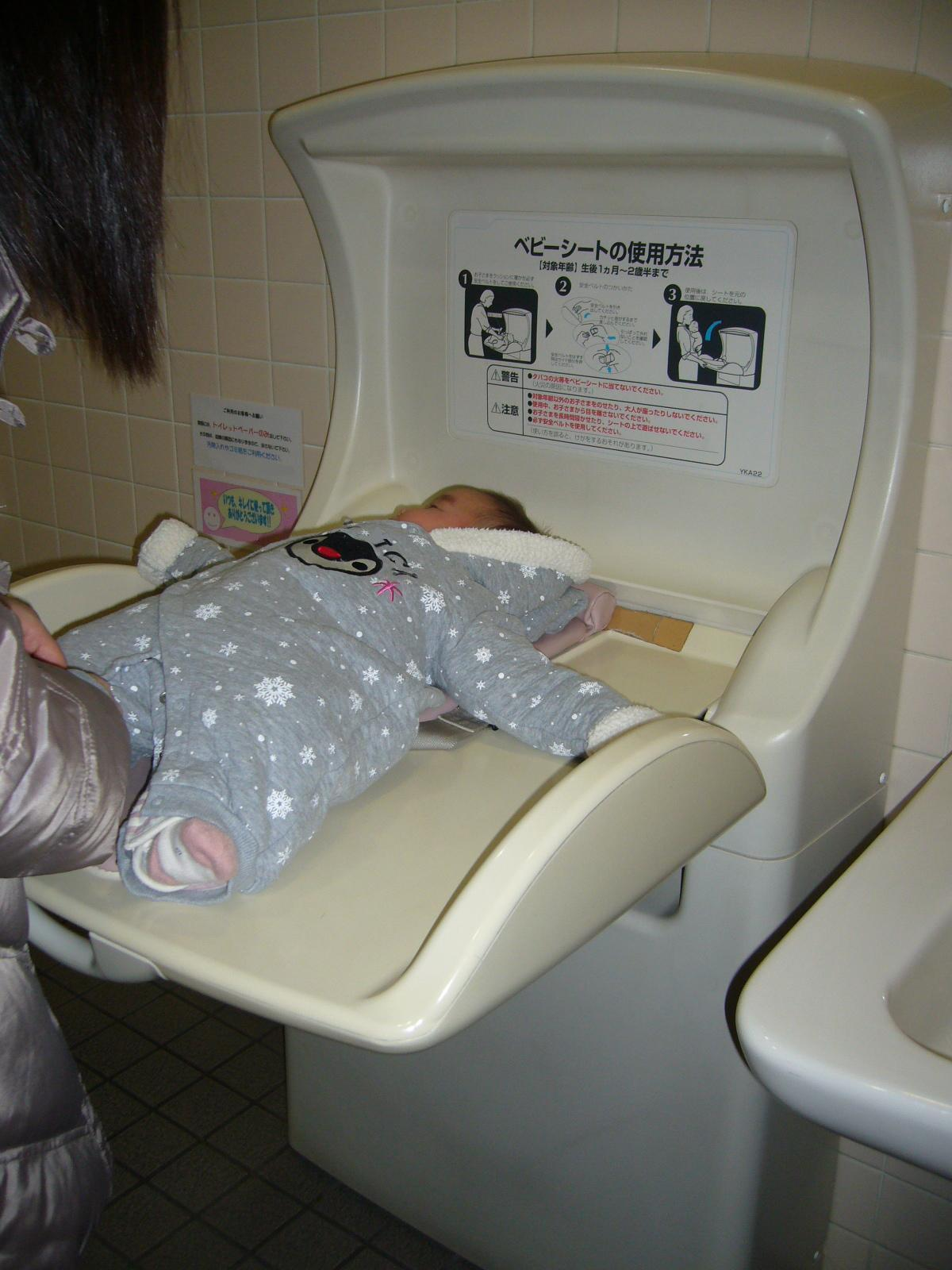 Cot in toilet,baby-seat,japan